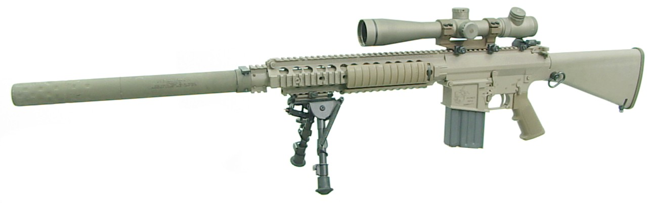 The latest version of the M110 Semi-Automatic Sniper System. Suppressor is attached. Features the new ECP improvements such as a buttstock hand-tightening knob, sling swivel sockets, a double sided bolt catch, and a button on the folding front sight to allow it to be locked into position.